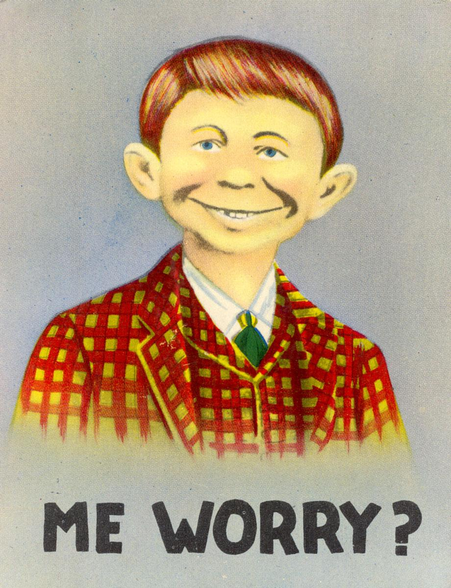 A postcard with the public domain "me worry?" face that later inspired Mad magazine's Alfred E. Neuman.